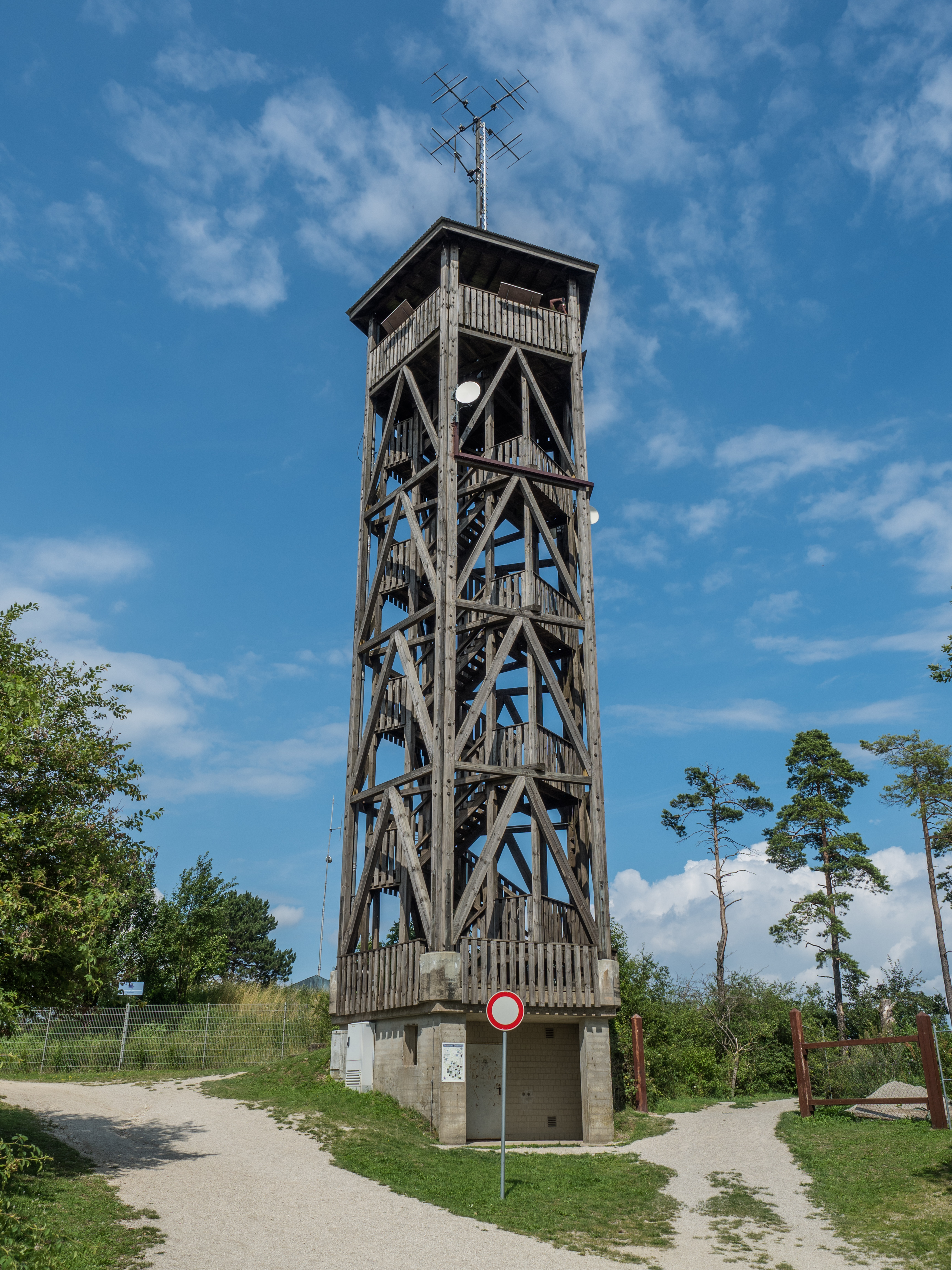 Lookout in Hohenmirsberg